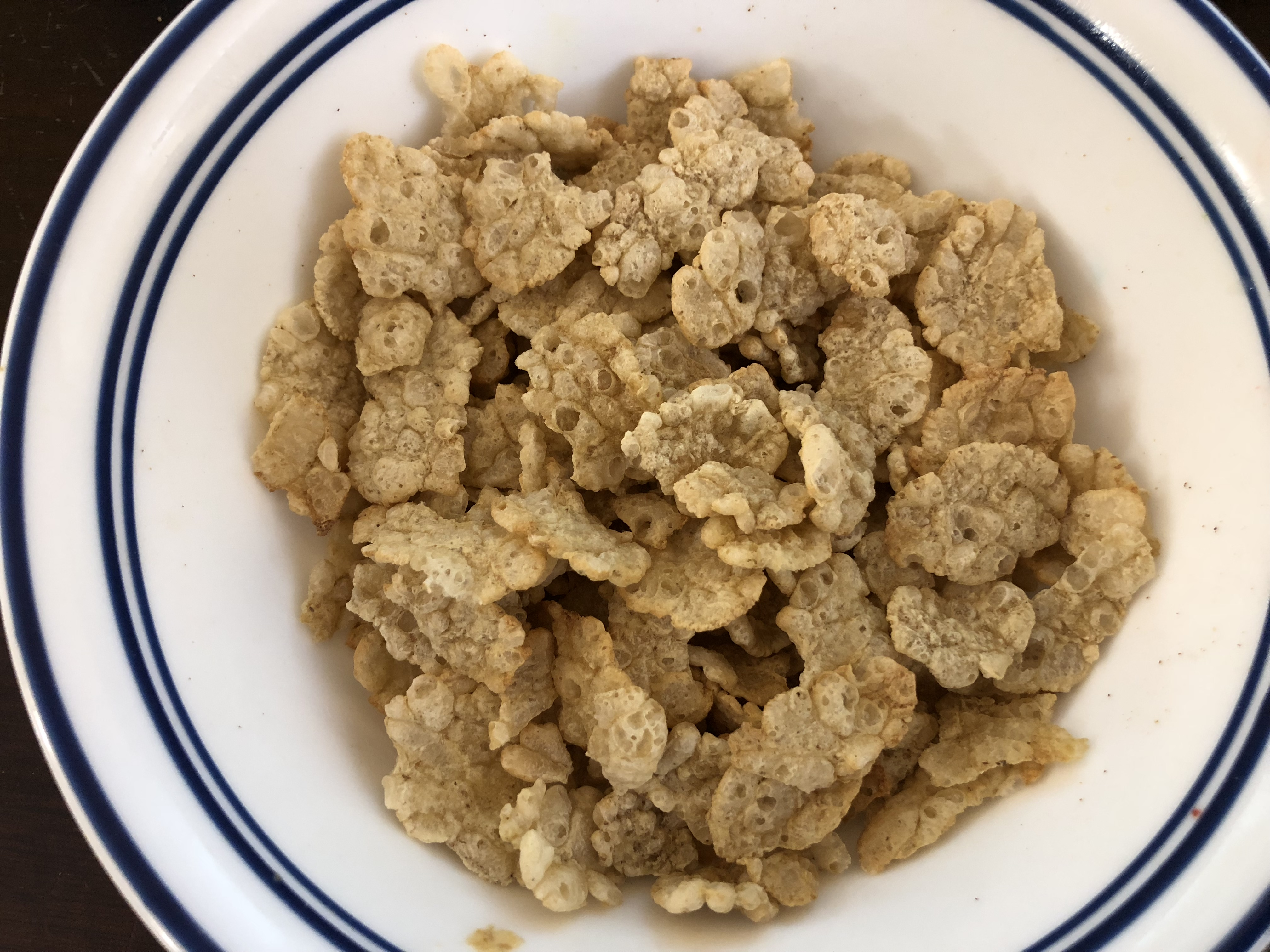 A bowl of Special K cereal in the Franklin Farm section of Oak Hill, Fairfax County, Virginia